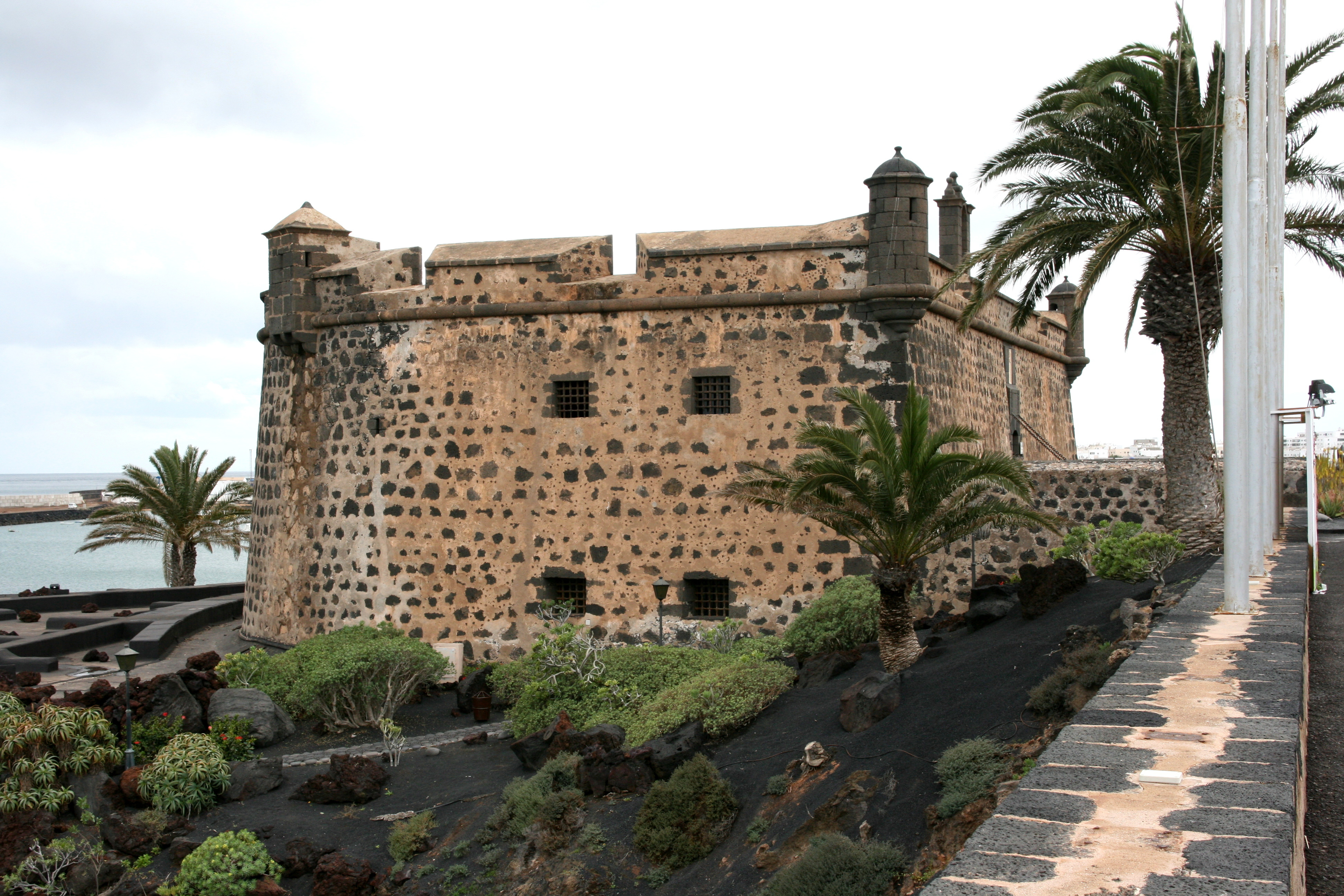 Castillo de San José, Avenida de Naos in Arrecife, Lanzarote, Canary Islands